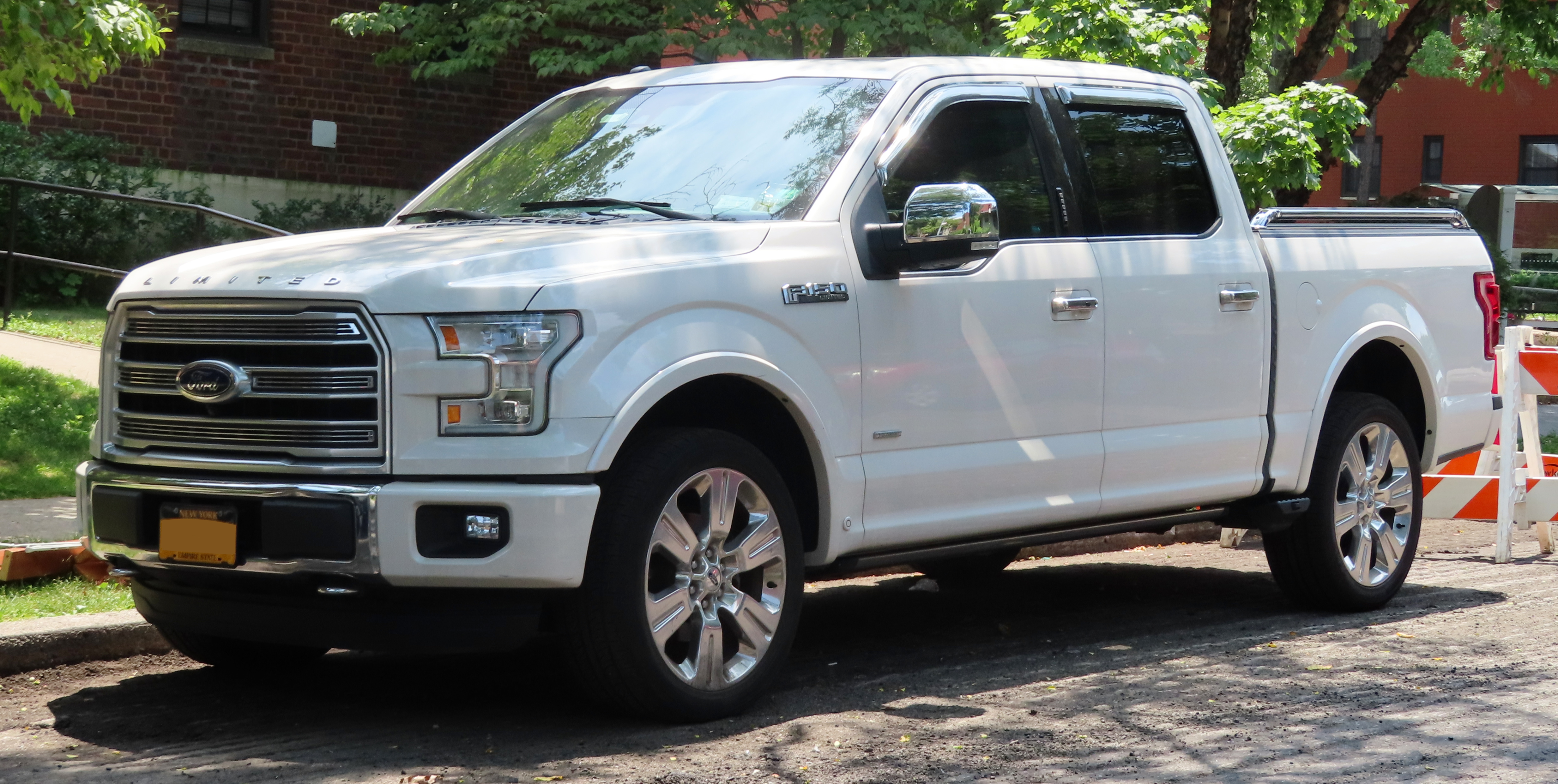 A 2016 Ford F-150 Limited photographed in Kew Gardens Hills, Queens, New York, USA